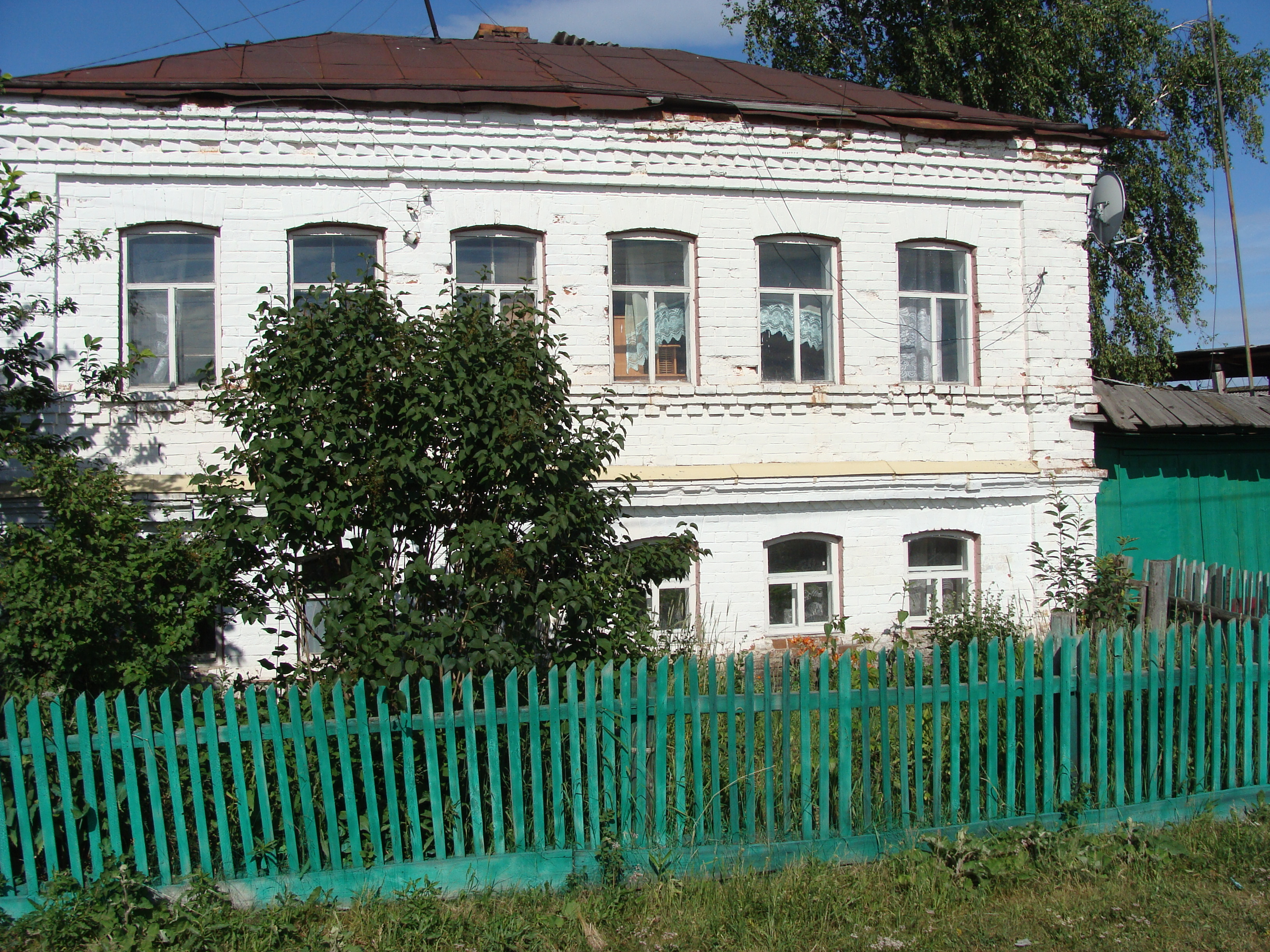 A house in Krasnopolyanskoye